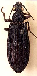 Omma stanleyi, taken from the Tree of Life website